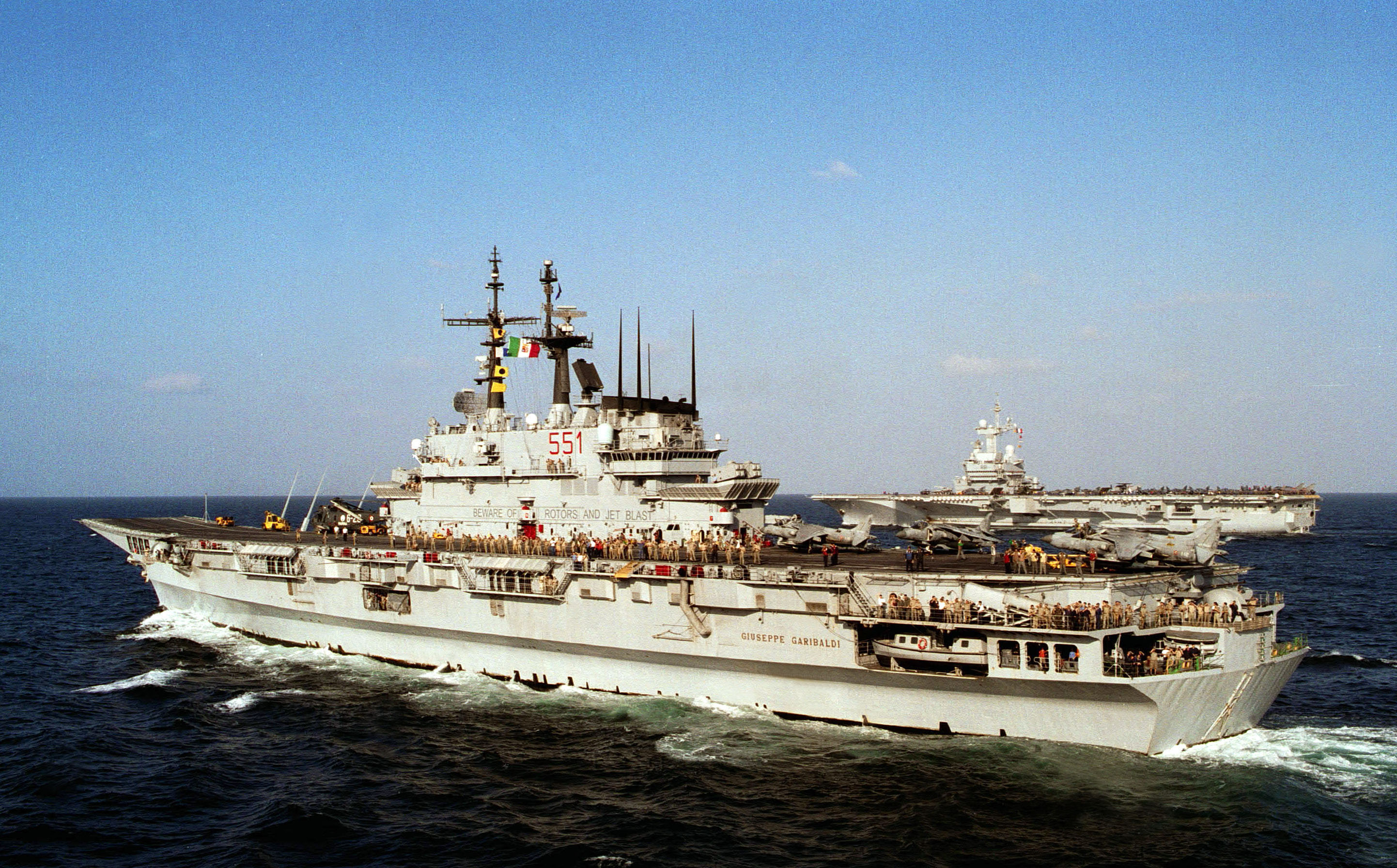 At sea aboard USS Theodore Roosevelt (CVN 71) Feb. 1, 2002 -- The Italian aircraft carrier Giuseppe Garibaldi (CVH 551) and French aircraft carrier Charles de Gaulle (R 91) steam alongside each other. Both carriers, along with the Theodore Roosevelt and several ships from other countries are deployed and conducting missions in support of Operation Enduring Freedom. U.S. Navy photo by Photographer’s Mate 3rd Class Amy DelaTorres. (RELEASED)